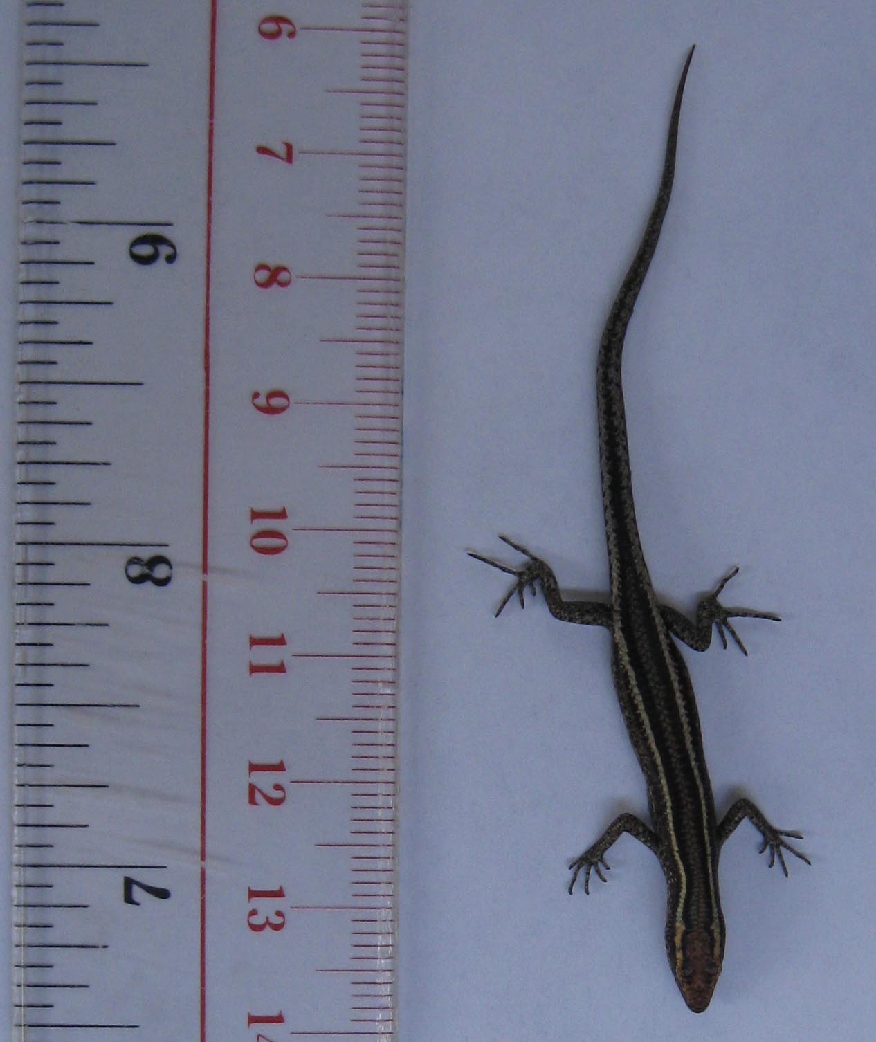 Picture of a fence skink (Cryptoblepharus virgatus) next to a ruler.